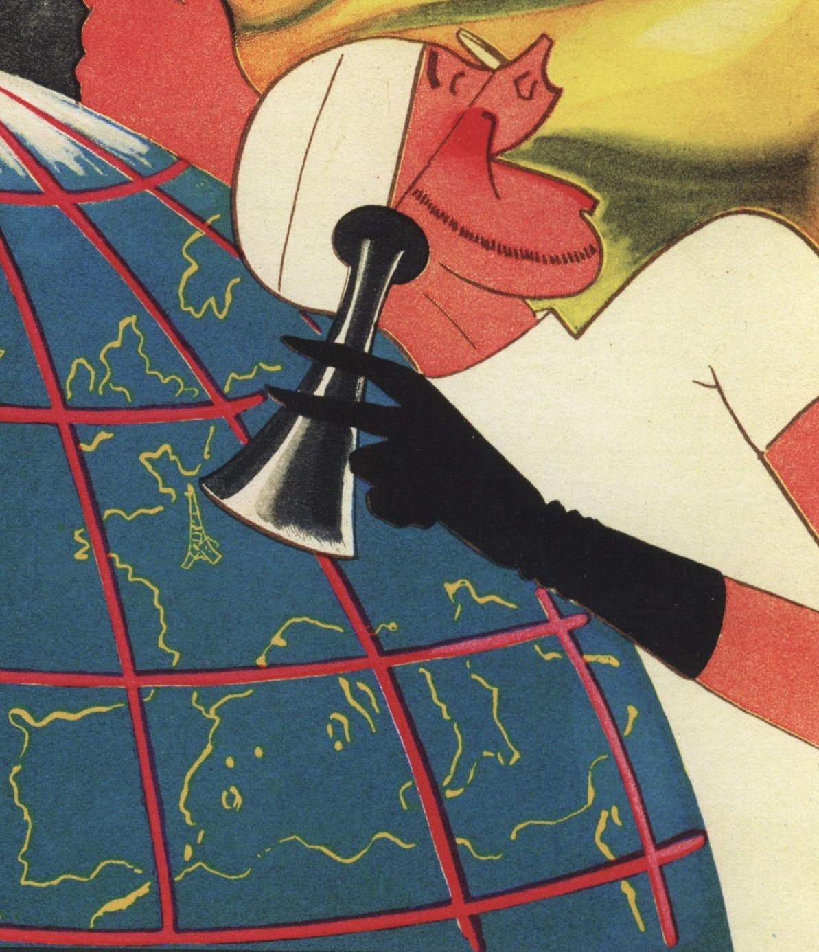 Perfect representation of language in clinical style